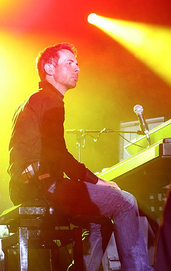 French pianist Matthieu Gonet on stage in 2009